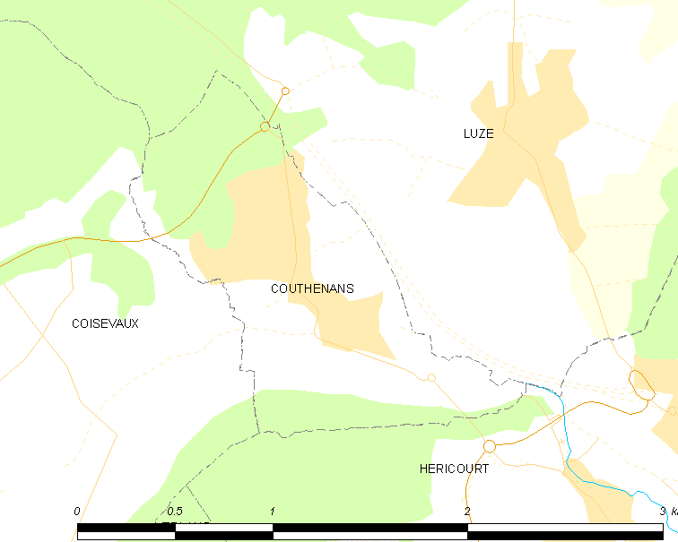 Map of French municipality